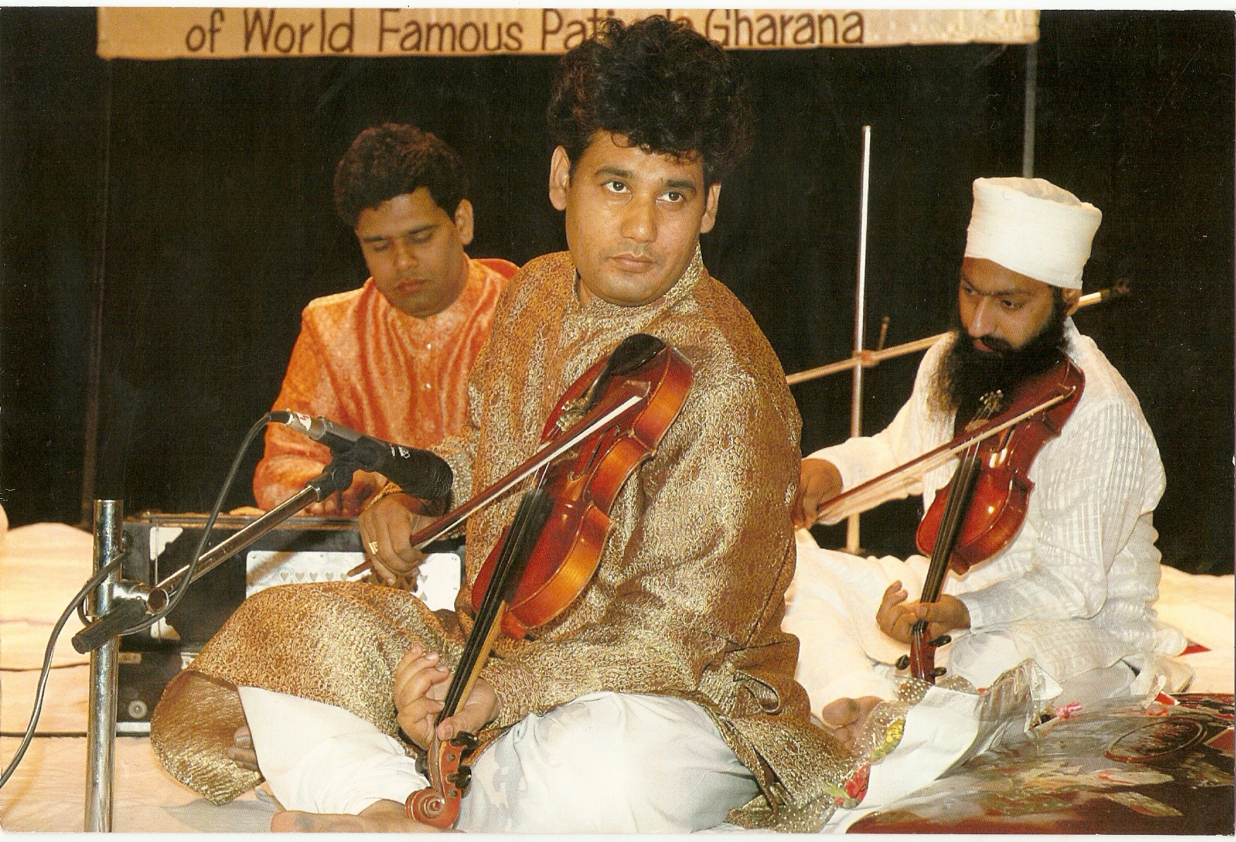 A memoriable picture of "Saaz Aur Awaz" Performance in New Delhi, India.